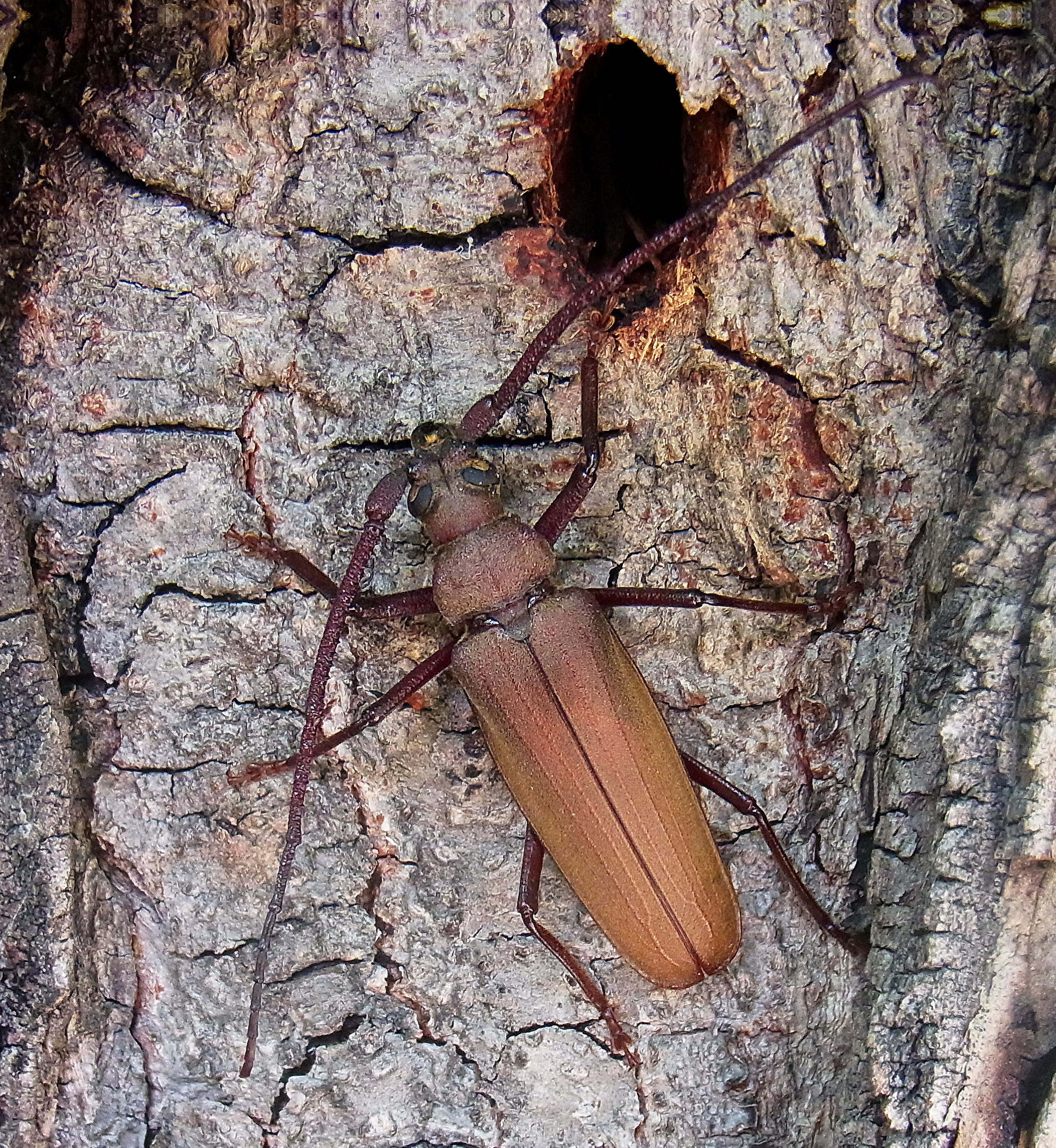 Aegosoma scabricorne on horse chestnut bark near hole, it came out from Hungary in Matra mountains (Parádsasvár) at 2012-07-04